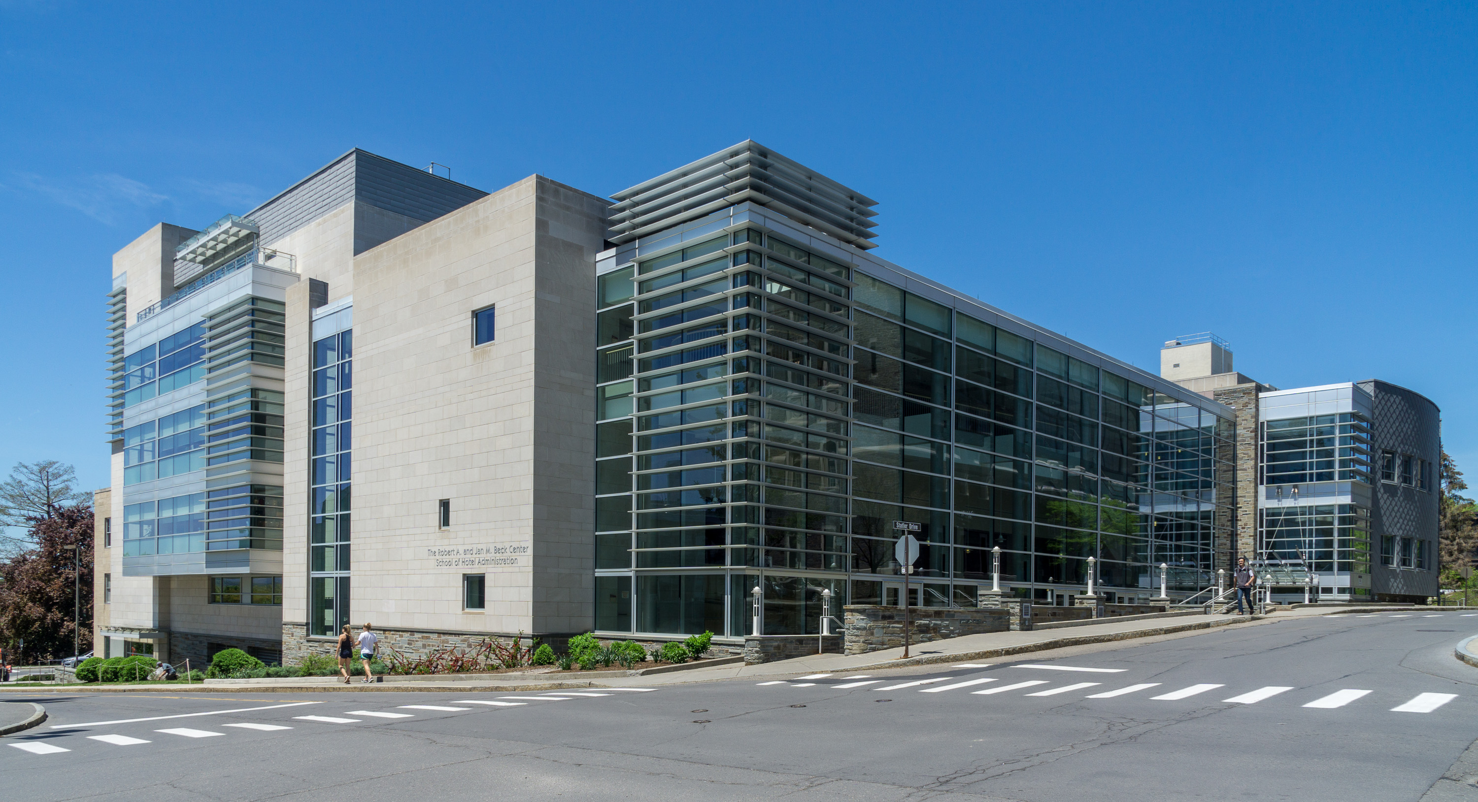 Robert A. and Jan M. Beck Center, Cornell University School of Hotel Administration, Ithaca, NY